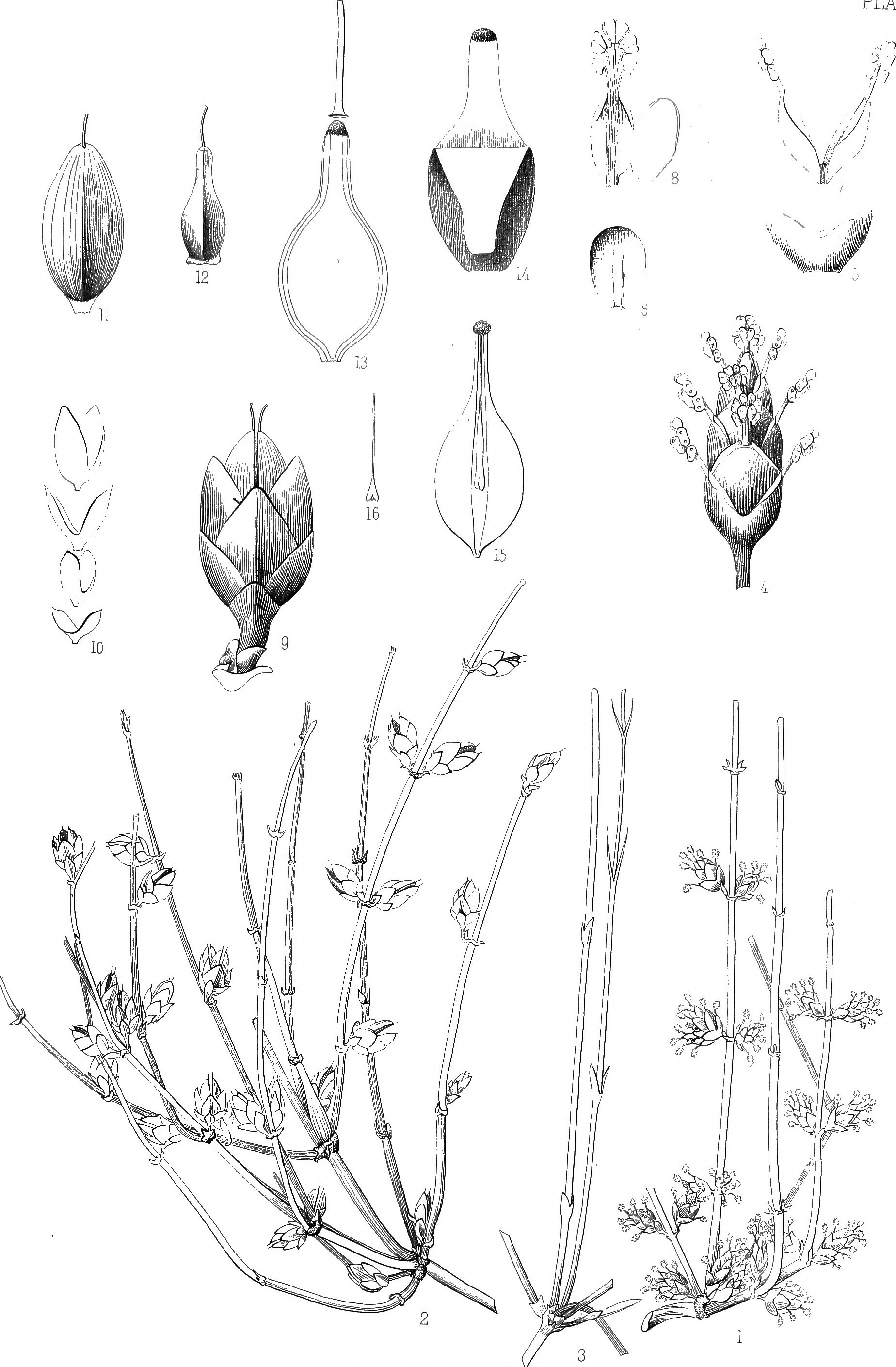 Title: Botany Year: 1871 (1870s) Authors: Watson, Sereno, 1826-1892; Eaton, Daniel Cady, 1834-1895; United States. Geological Exploration of the 40th Parallel. Report. v. 5 Subjects: Botany Publisher: Washington, Govt. Print. Off. Text Appearing Before Image: ' Text Appearing After Image: PLATE XXXIX EPHEDRA ANTISYPHILITICA